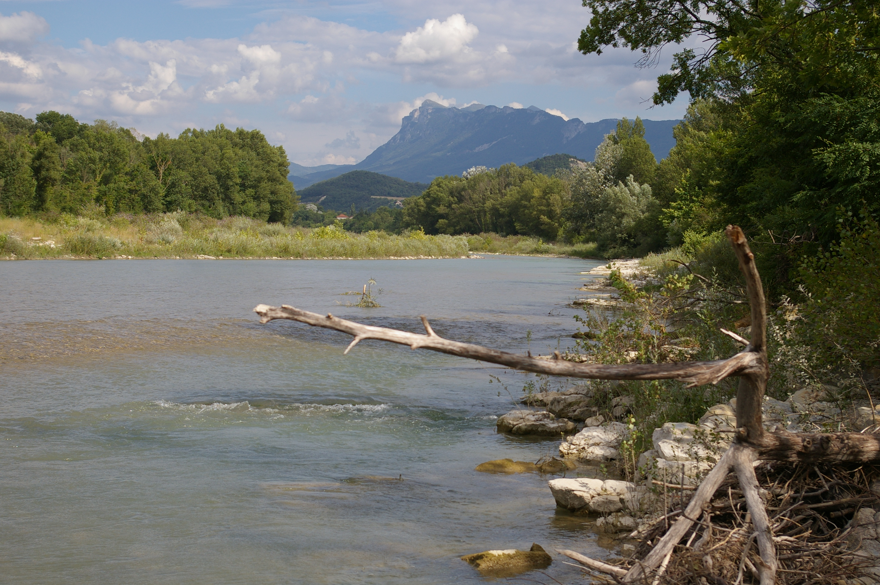 River Drome, les Trois Becs in the distance